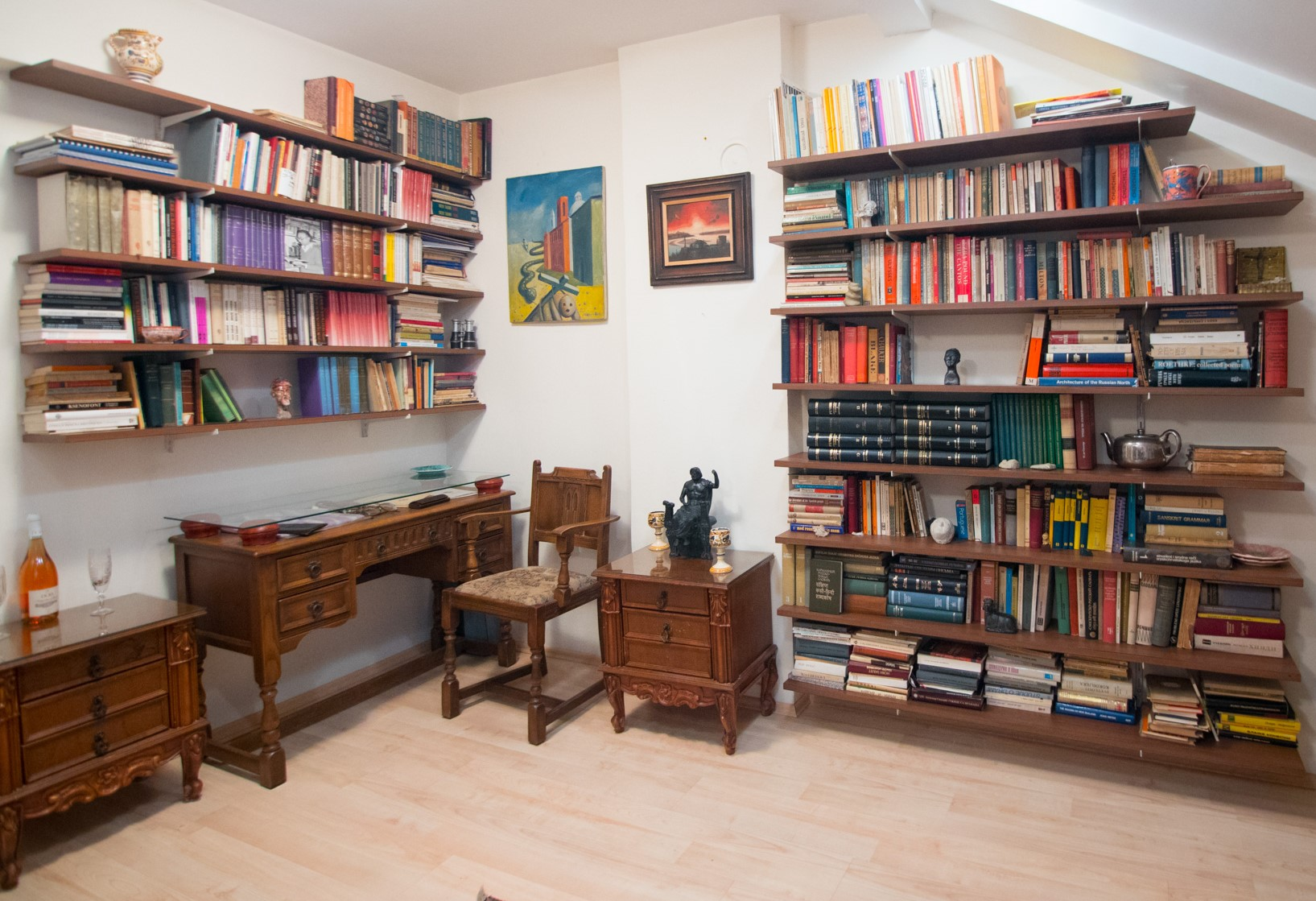 Part of the memorial room of Miodrag Pavlović in the Society for Culture, Art and International Cooperation Adligat in Belgrade, Serbia. Српски (ћирилица): Део спомен собе Миодрага Павловића у Удружењу за културу, уметност и међународну сарадњу Адлигат у Београду.